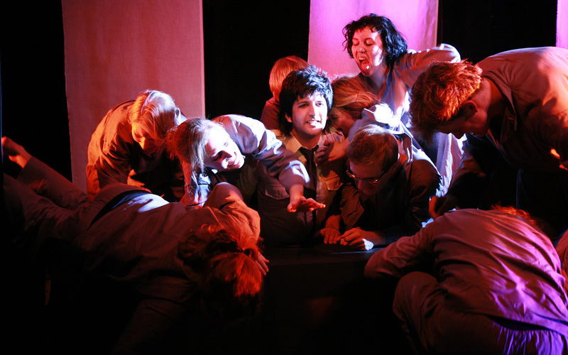 Photo of parts of the theatrical ensemble 'Lunds nya Studentteater' with the lead actor entangled during rehersals for the autumn 2006 play of 'Dante's Divina Commedia'.